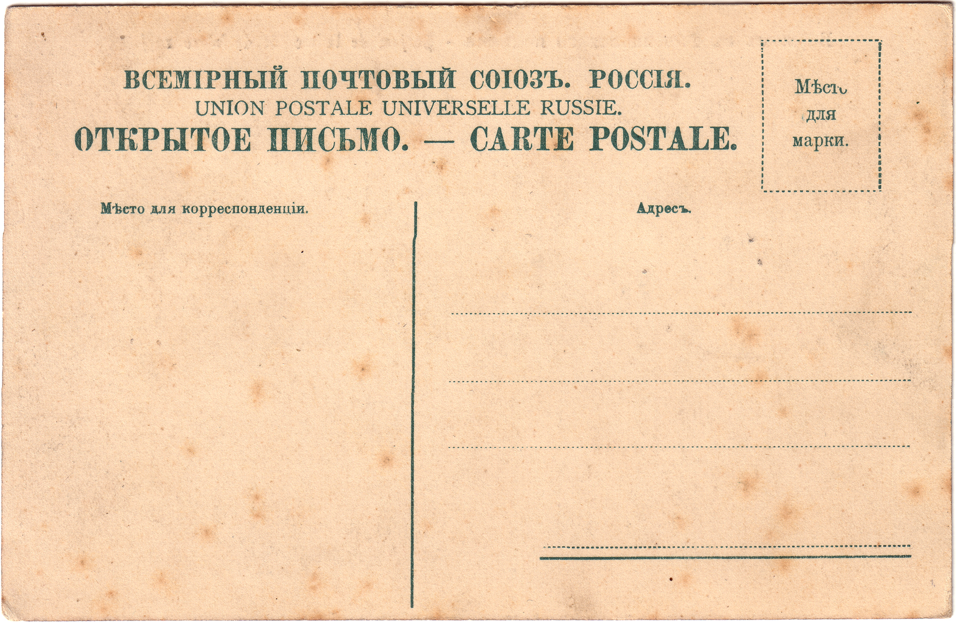 The blank side of open letter of tzarist Russia (end of 19th century)